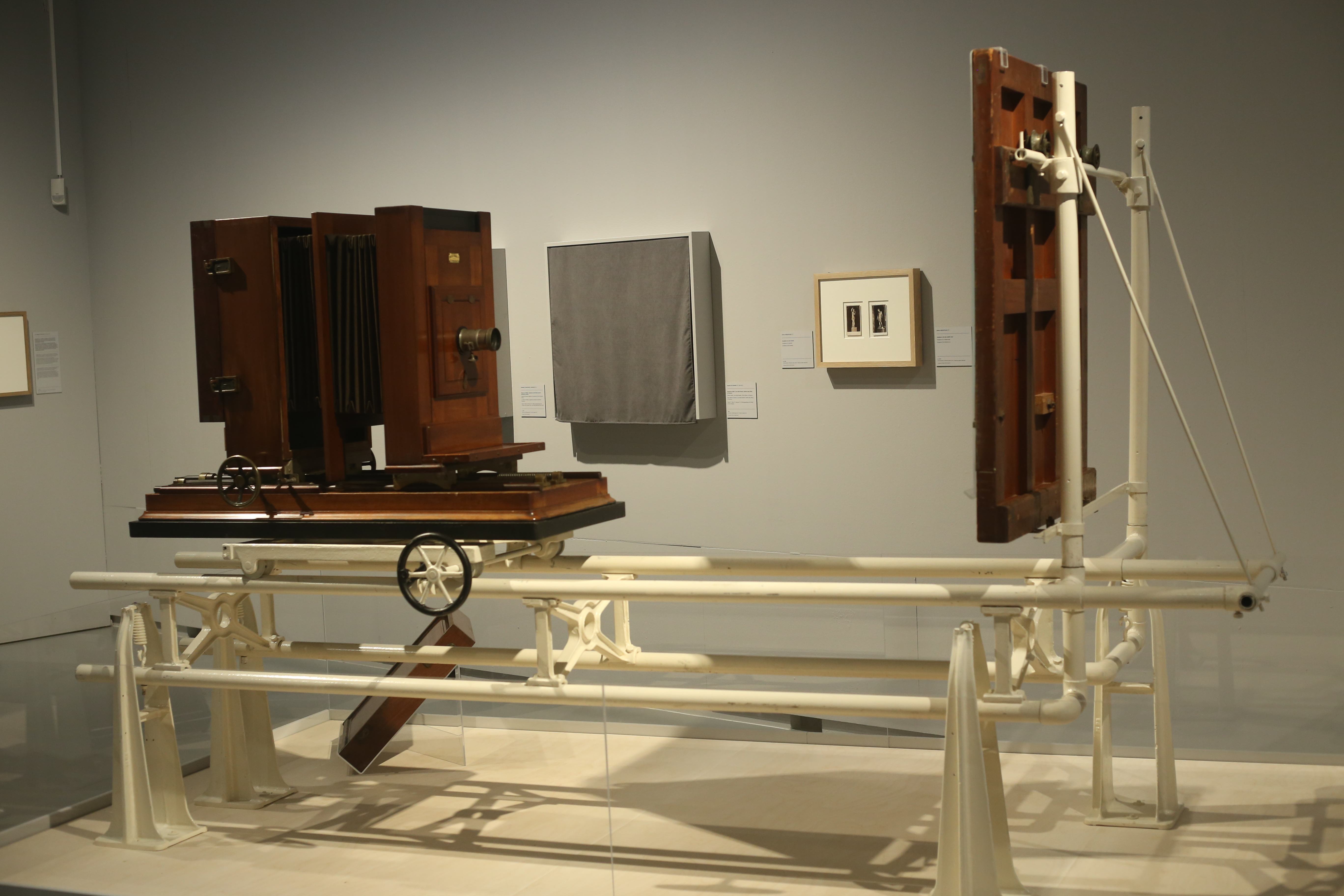 Giant camera, Fotomuseum Antwerp, Belgium This is a file created at the museum: FOMU Photo Museum in Antwerp